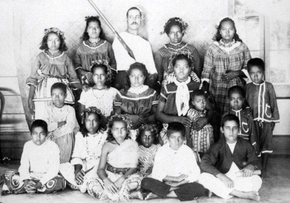 Group of young people and children from Swains Island, American Samoa. Photograph by Thomas Andrew in late 1886.